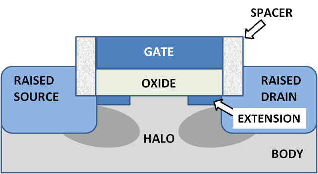 MOSFET junction structure showing junction extensions and halo implant